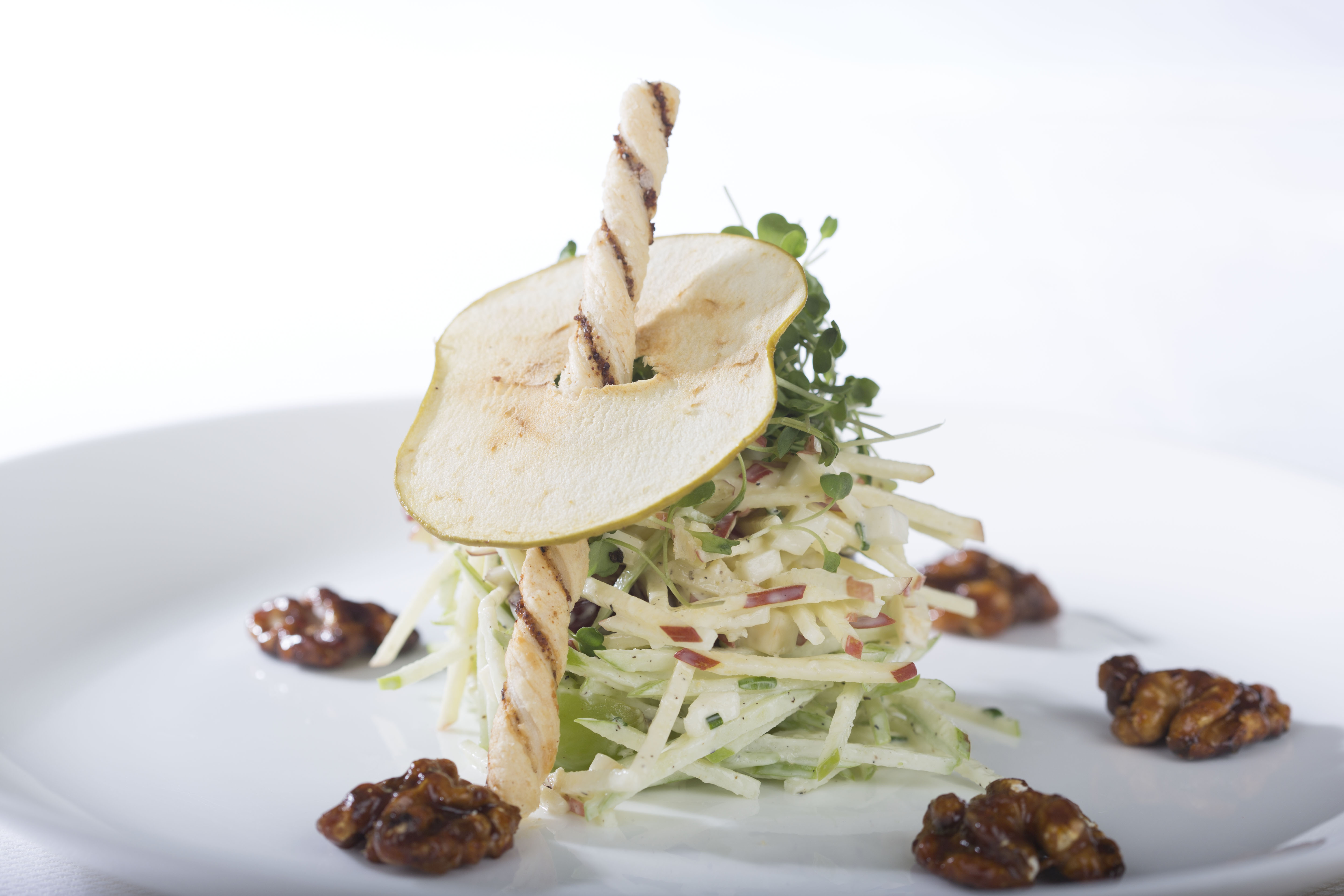 Waldorf Salad, prepared by the Waldorf Astoria New York (2013)